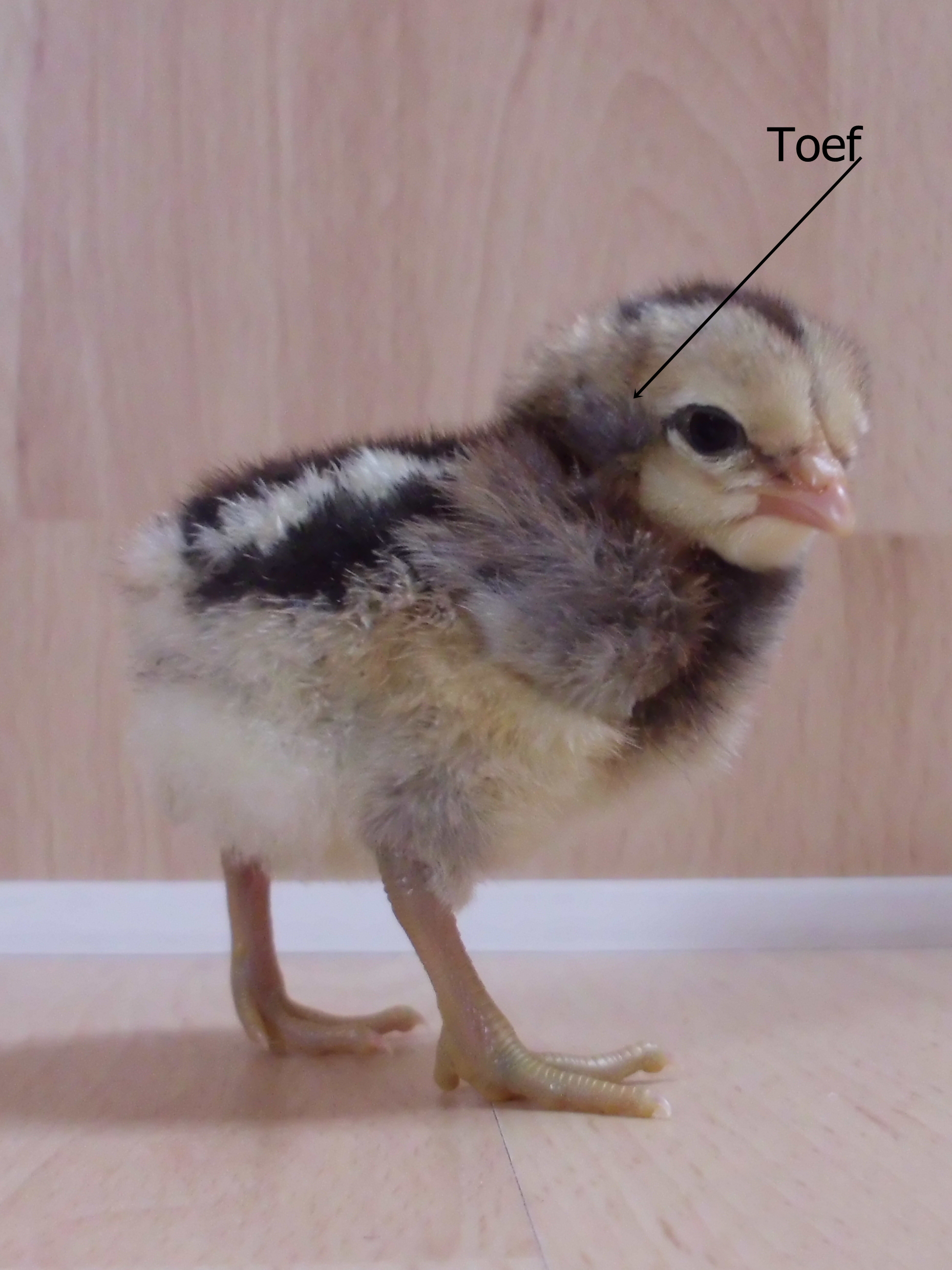 Chick with tuft